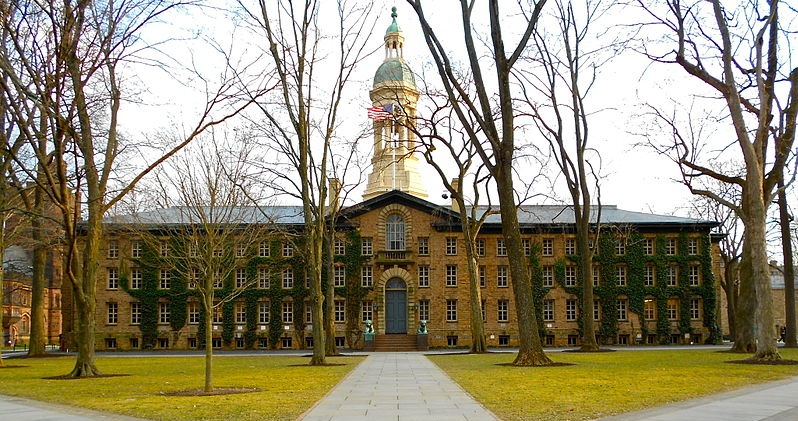 Nassau Hall, the original building and current administration building of Princeton University.